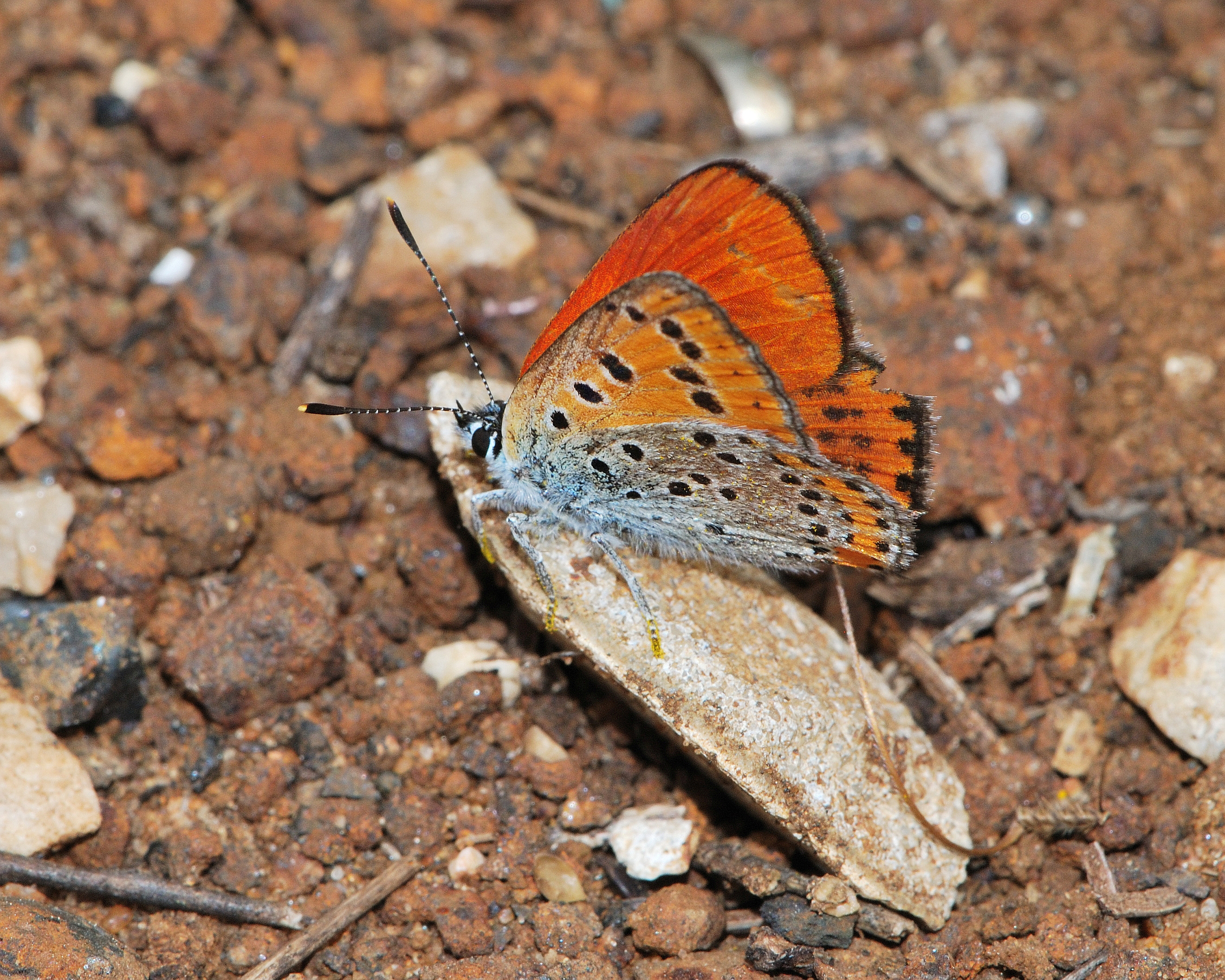 Male Lycaena thersamon omphale, Nes Ziyona, Israel, April 3, 2011.